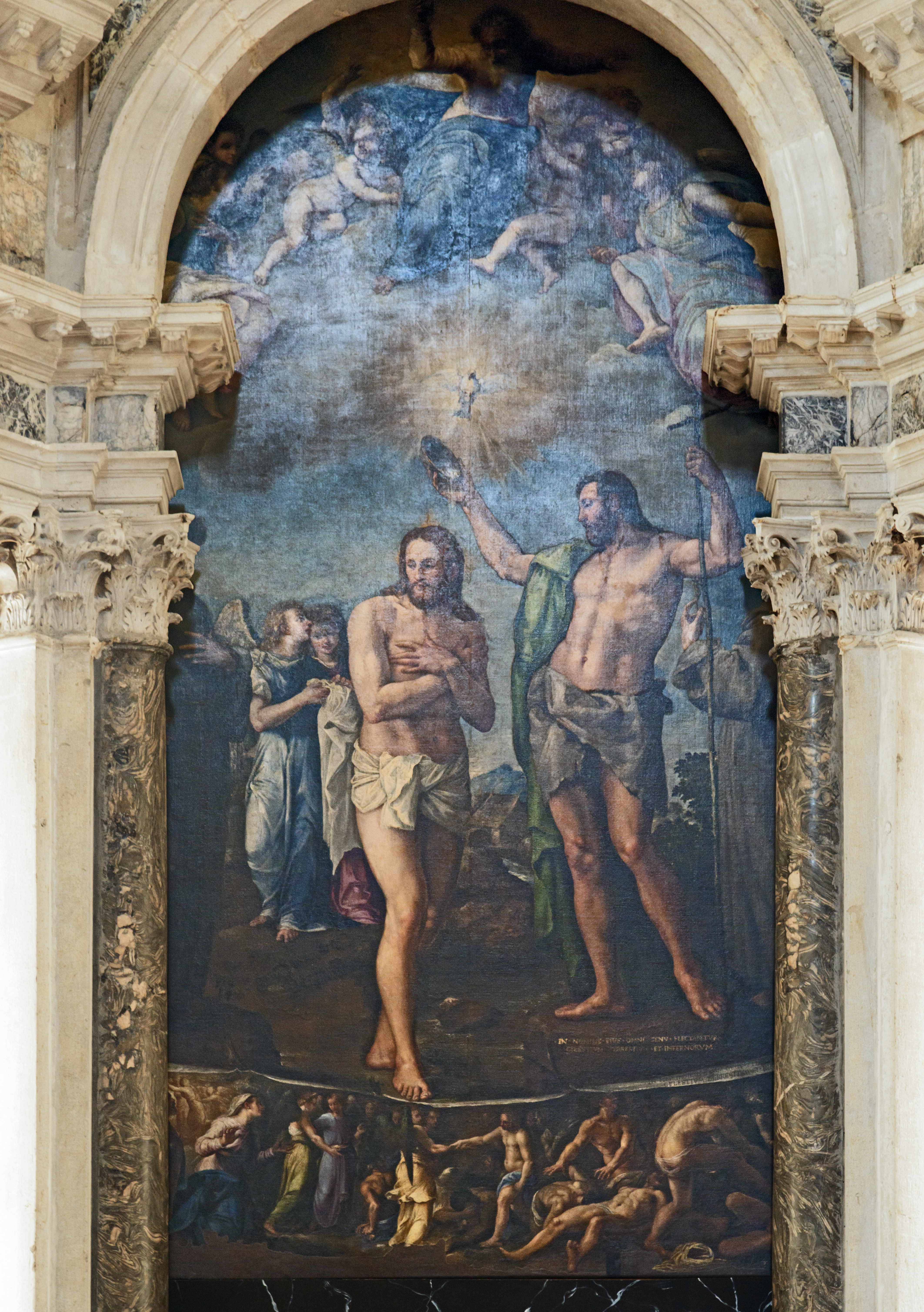 Cappella Barbaro of San Francesco della Vigna (Venice). Painting of the altarpiece "The Baptism of Christ between St. Francis and Bernardine of Siena" by Battista Franco. Oil on canvas, between Circa 1555.